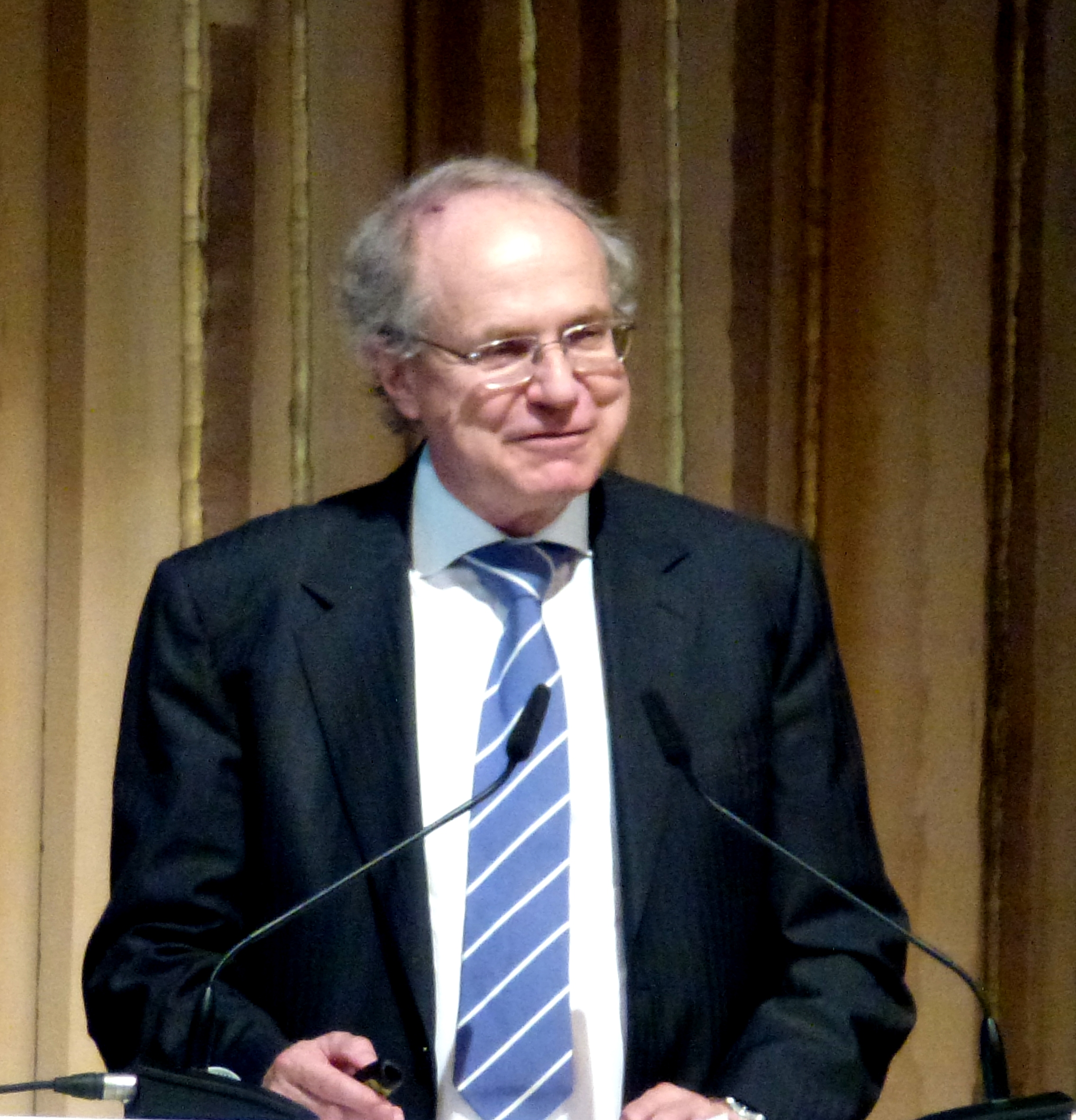 German Manager Burkhard Goeschel, Magna, BMW